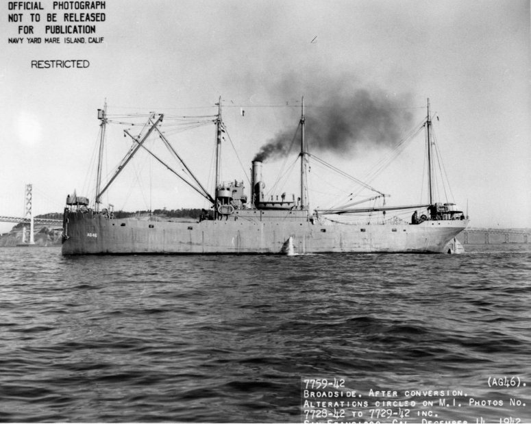 Broadside view of USS Tuluran (AG-46) off San Francisco, 14 December 1942.